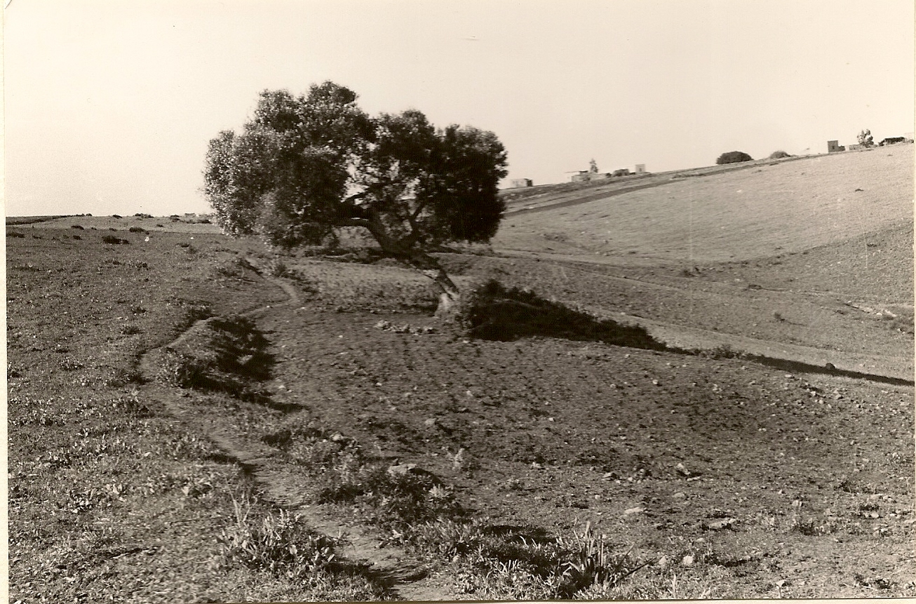 A very beautiful wild olive tree as vegetation testimony in a cultivated field north Koudiate Sidi-Sidi-Abderrahmane